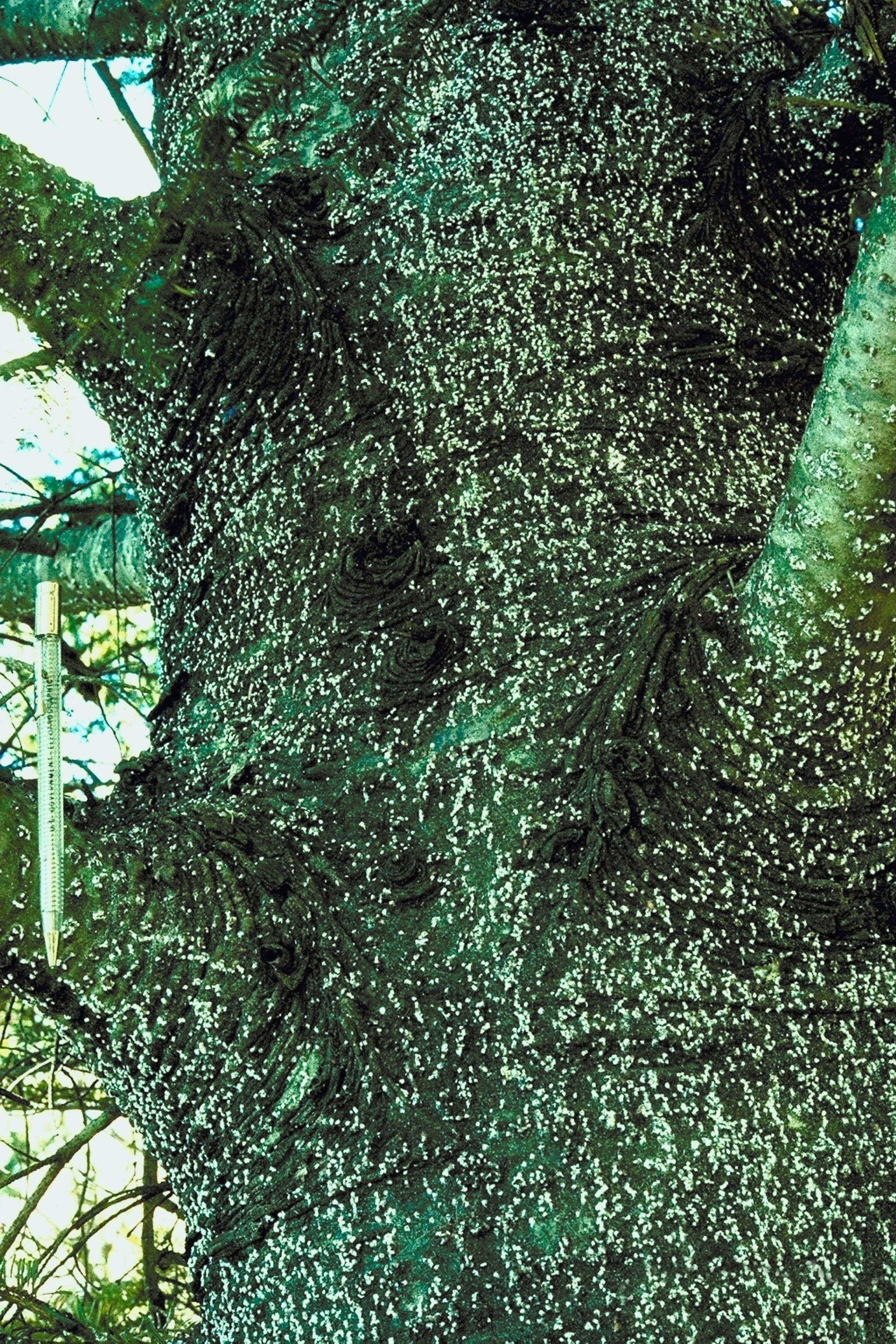 Adelges piceae Ratzeburg Common Name: balsam woolly adelgid Photographer: USDA Forest Service - Ashville Archive, USDA Forest Service, United States Descriptor: Infestation Image taken in: United States